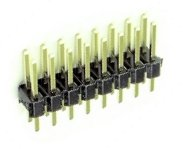 8x2 straight pin header